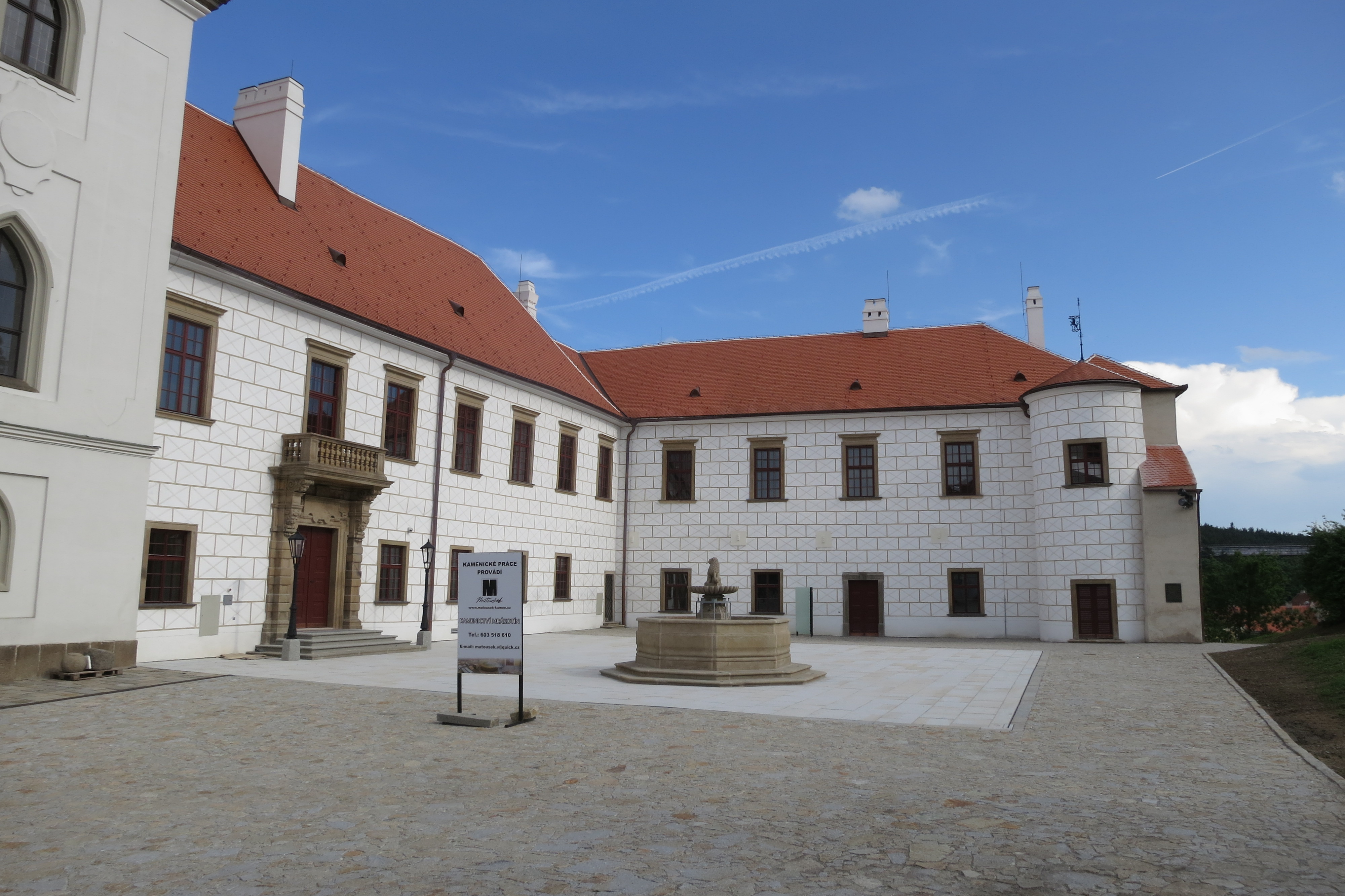 Overview of Třebíč Castle in 2013.